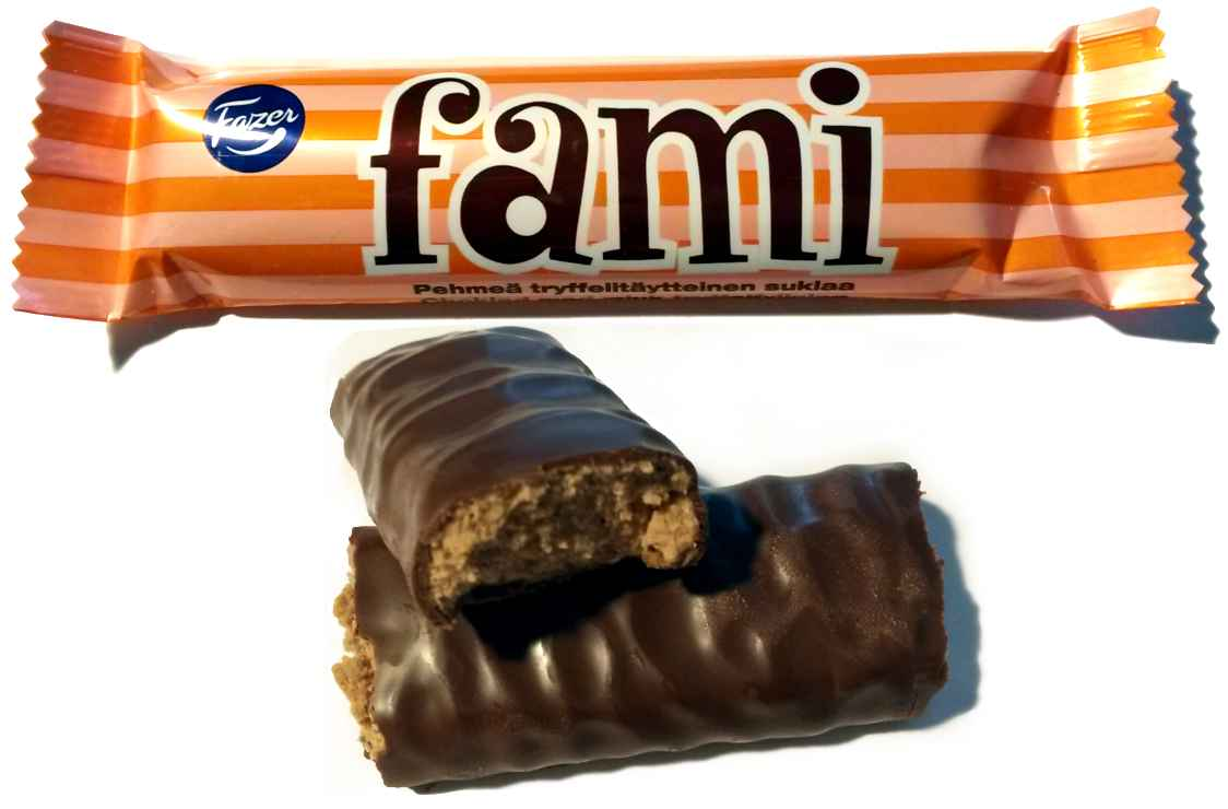 Fami chocolate bar. The bar weights 32 g, is coated with dark chocolate and has a hazelnut truffle filling. Manufactured by finnish food company Fazer Makeiset Oy.